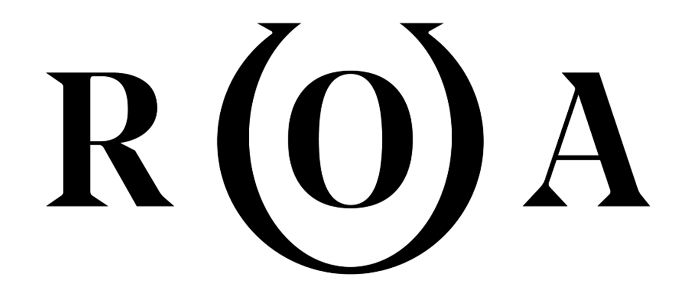 ROA update logo